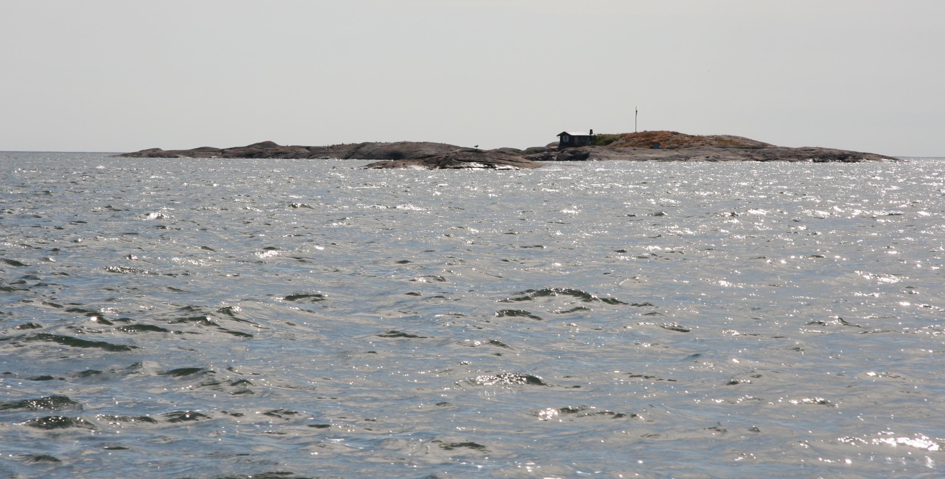 Klovharu island Pellinki Finland